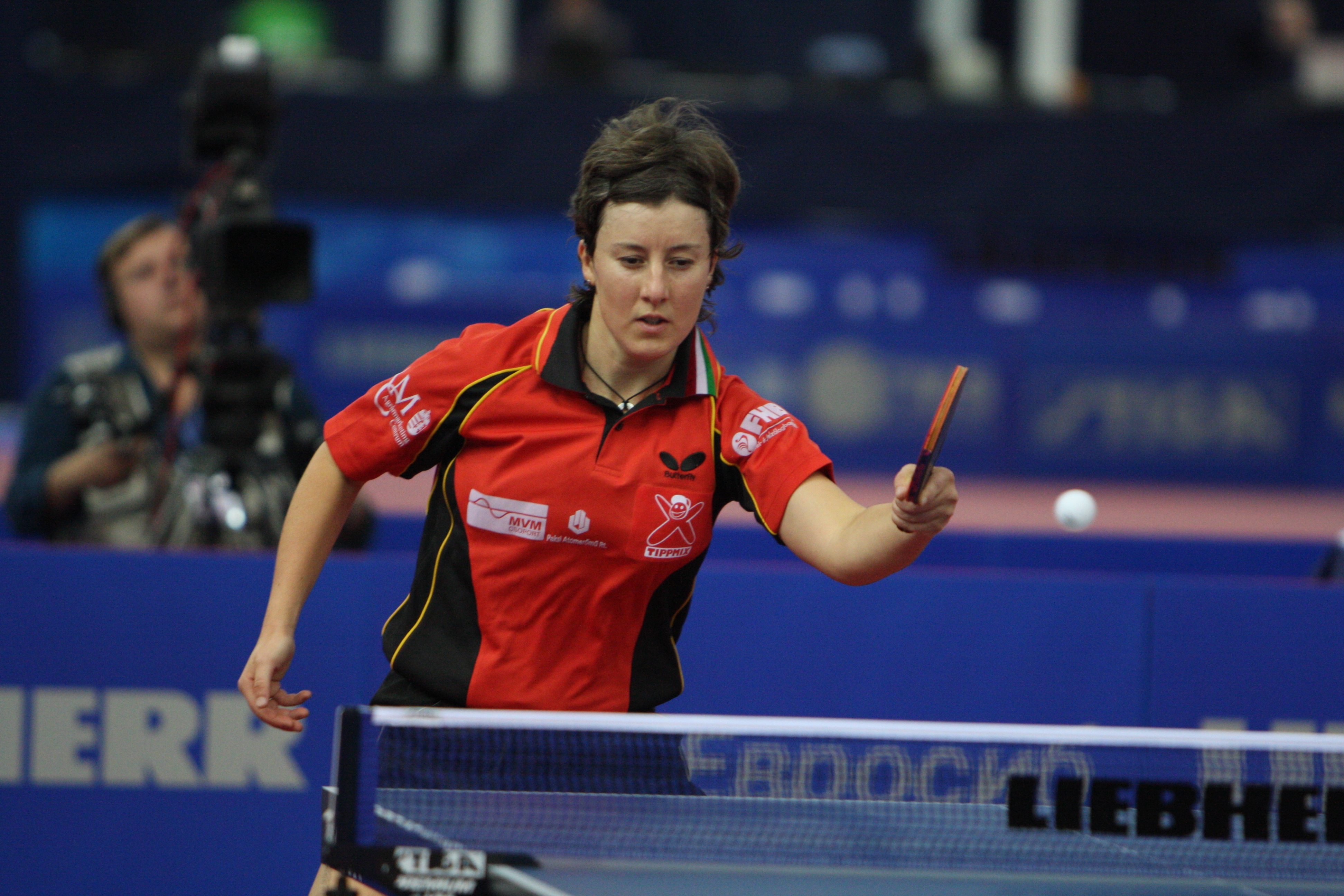 Krisztina Tóth in 2008